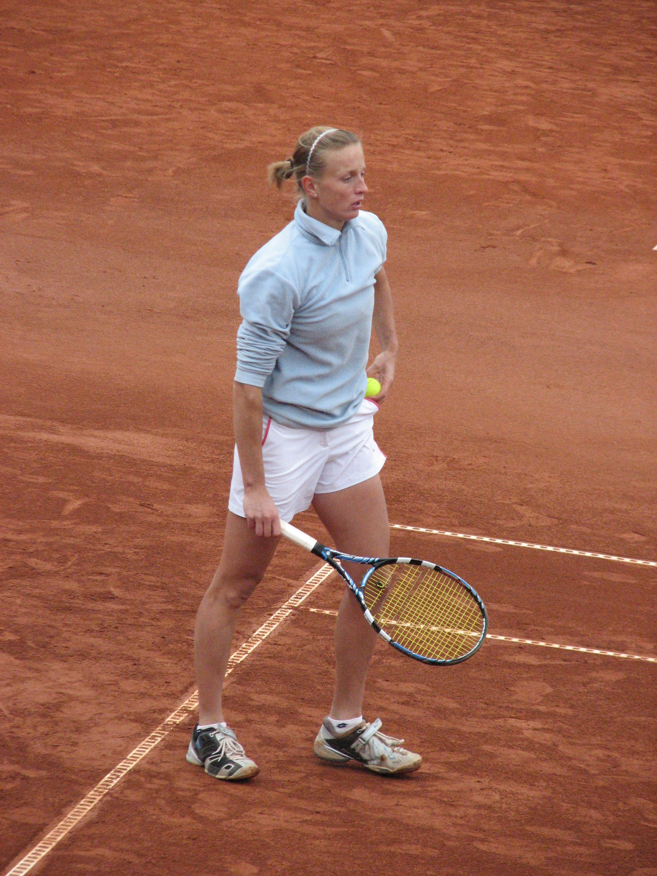 Maret Ani (Allianz Cup Sofia 2008)